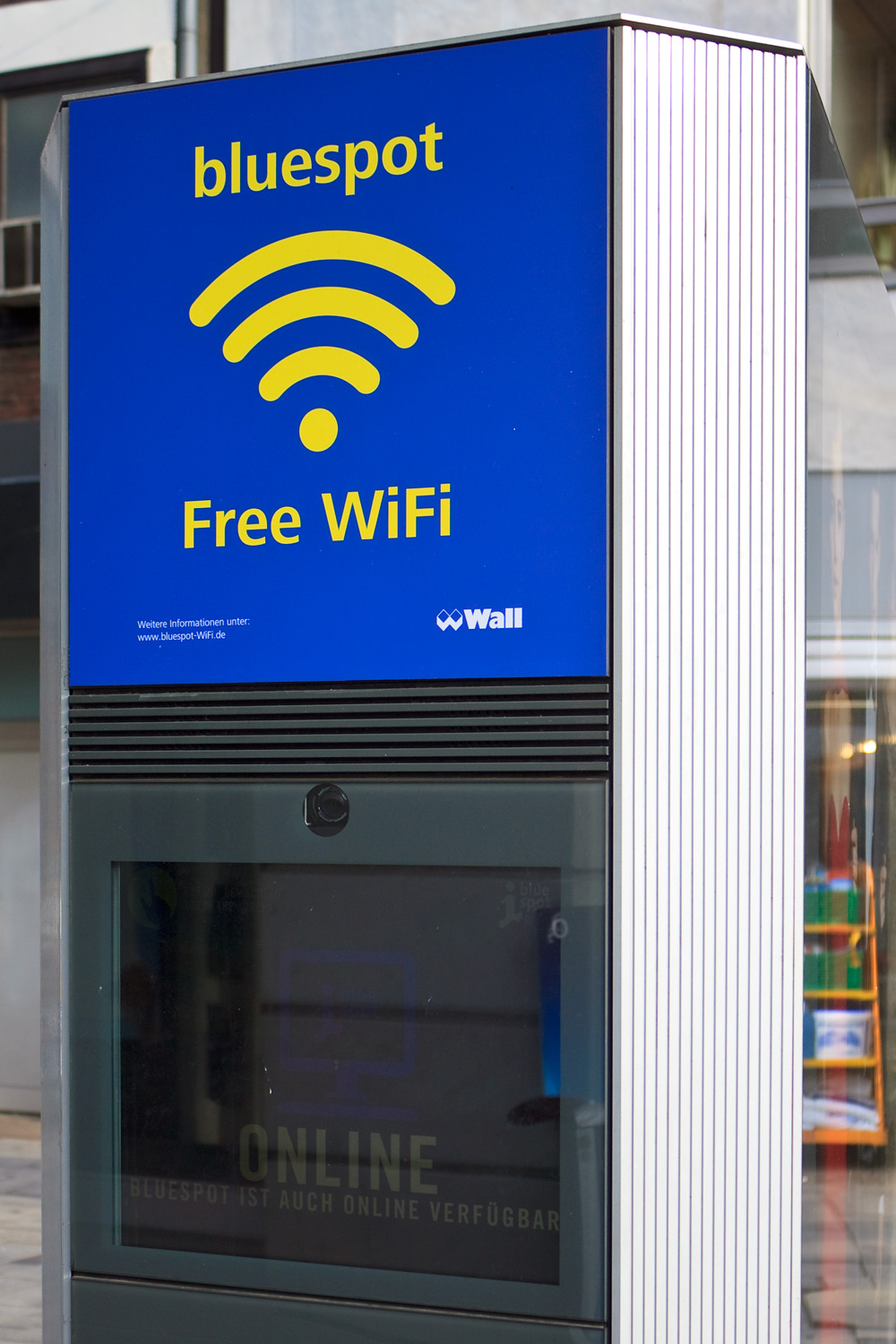 Outdoor advertising including internet kiosk and public wifi (wlan). Company: Wall AG (Berlin). Position: Düsseldorf, Germany. bluespot-wifi.de